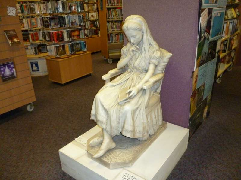 The "Little Eva" statue which sits within the lending area of Walsall Central Library